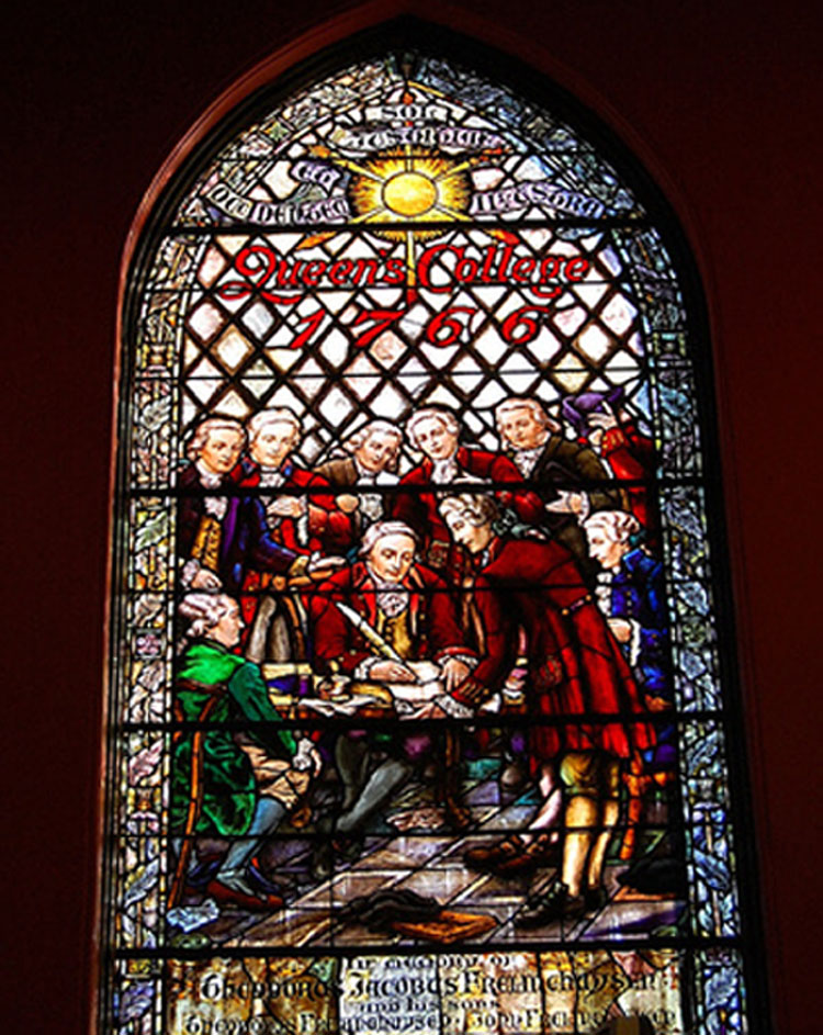 Picture of the Queen's College 1766 Charter Window above the narthex and choir loft of Kirkpatrick Chapel at Rutgers University in New Brunswick, New Jersey. Donated on the 175th anniversary of the charter signing by the Frelinghuysen family to honour their ancestor (and early college proponent), Rev. Theodorus Jacobus Frelinghuysen and his sons Theodorus Jacobus Frelinghuysen II and John Frelinghuysen Other information I am a Rutgers alumnus, former graduate TA, and visit campus often.